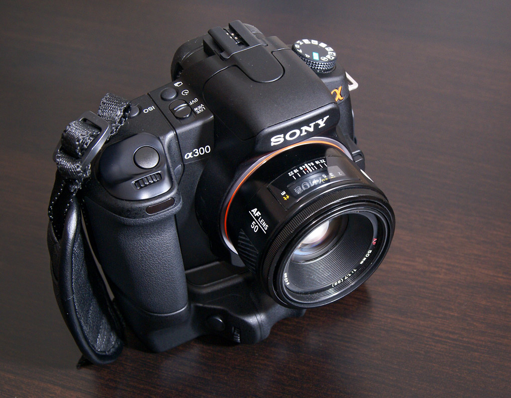 Sony D-SLR Alpha 300 with vertical grip and 50 mm lens